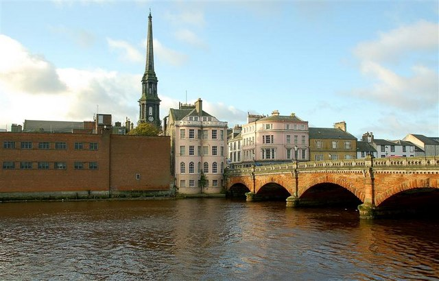 The New Bridge Looking across the Ayr towards the fine bow-fronted buildings on the south side. The double bow-fronted building was the town house of Alexander Stevens, the mason who over-viewed the construction work in 1786-88. These houses were saved from redevelopment by a local conservation group. The original bridge was so severely damaged in 1877 by storms and floods that a replacement had to be built. Completed in 1879, the new bridge has retained many of the attractive features of its predecessor. (Sources: "Discovering Ayrshire" by John Strawhorn, and "Ayr Stories" by Dane Love.)